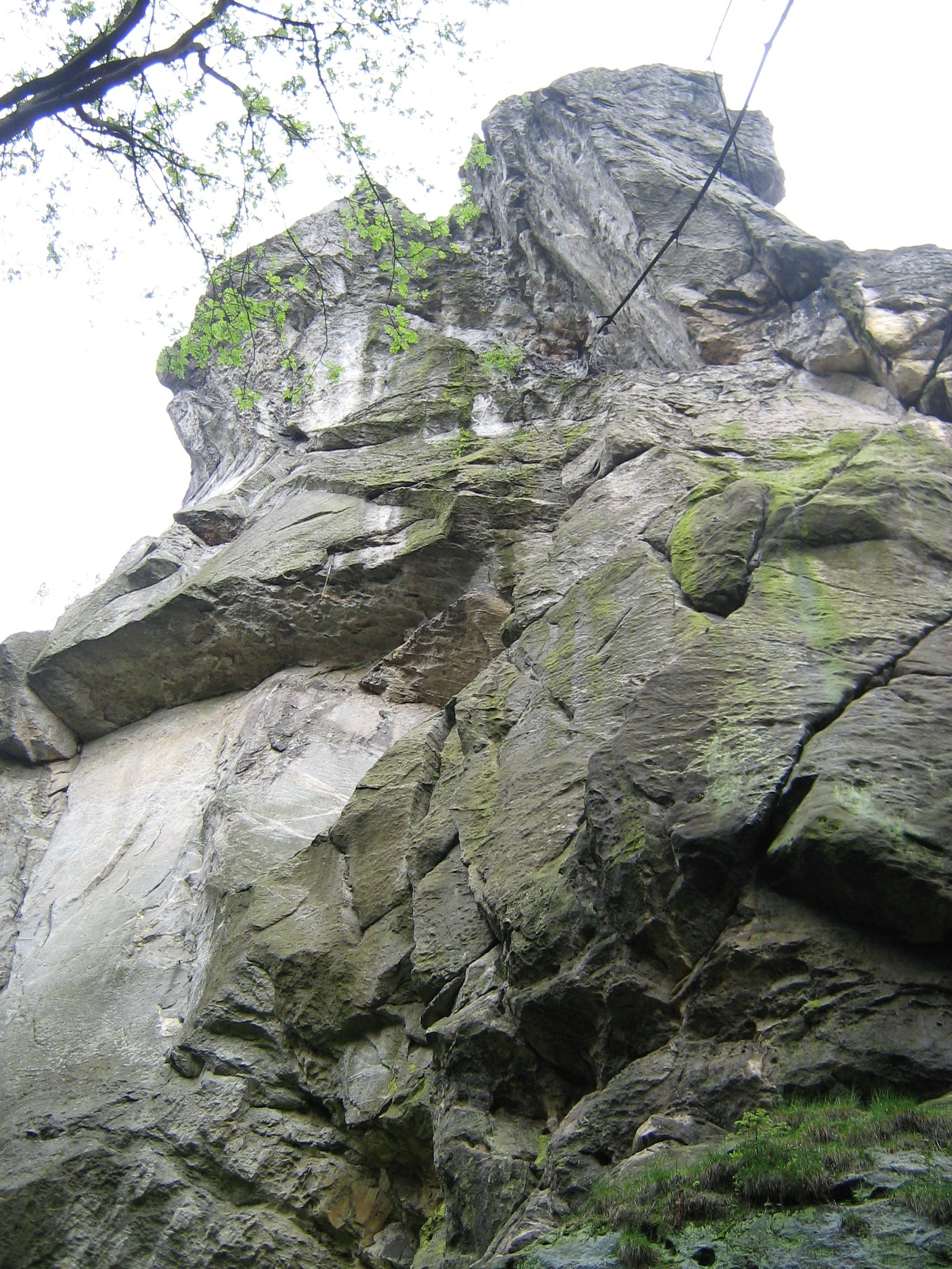 The Rock Havran u Jítravy by Rynoltice in the Lusatian mountains.